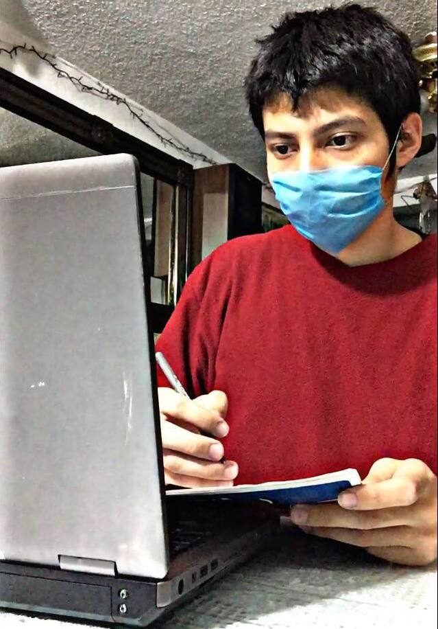 A mexican student doing school work from house during the coronavirus pandemic.